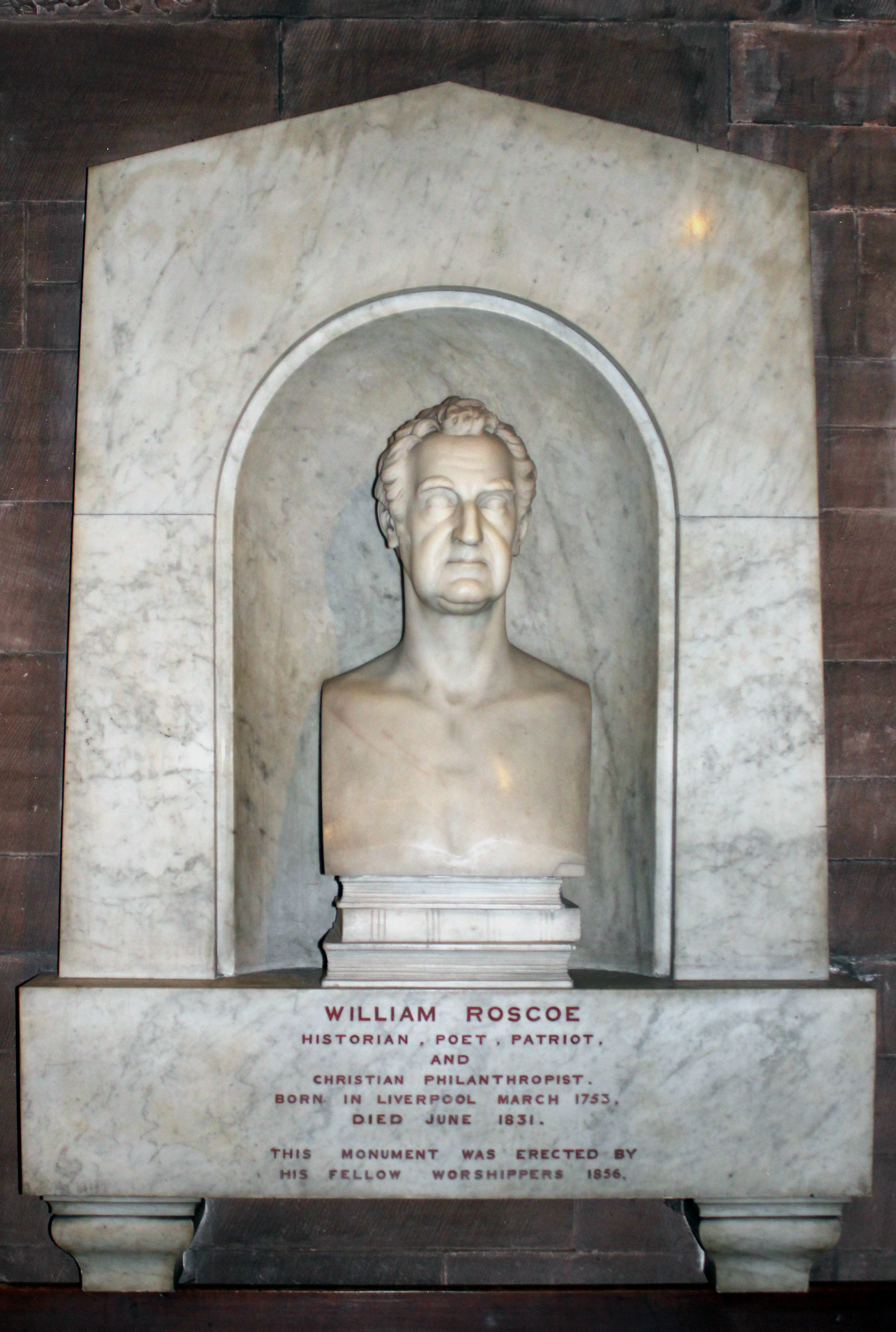 Tablet memorial to William Roscoe, Ullet Road church